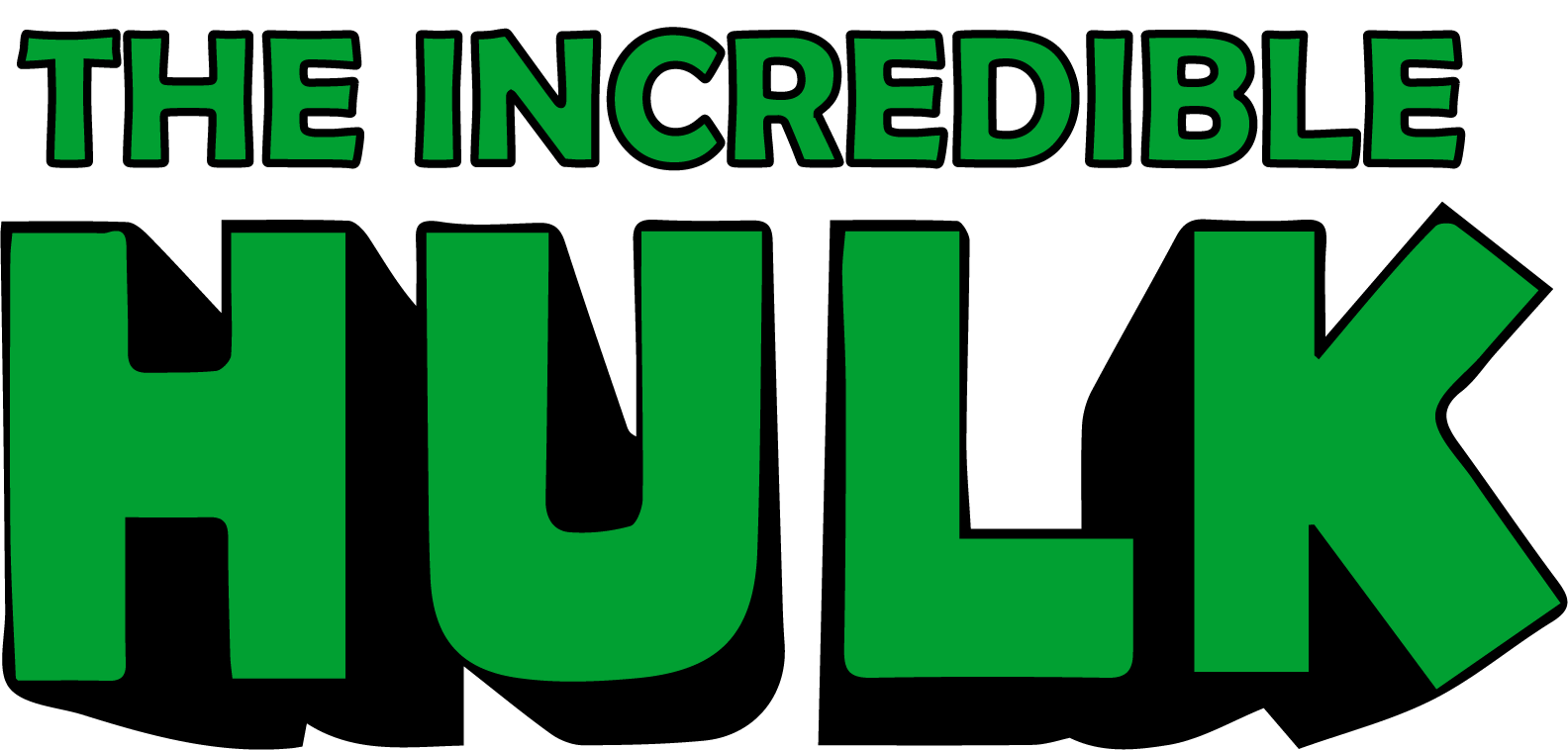 Hulk logo